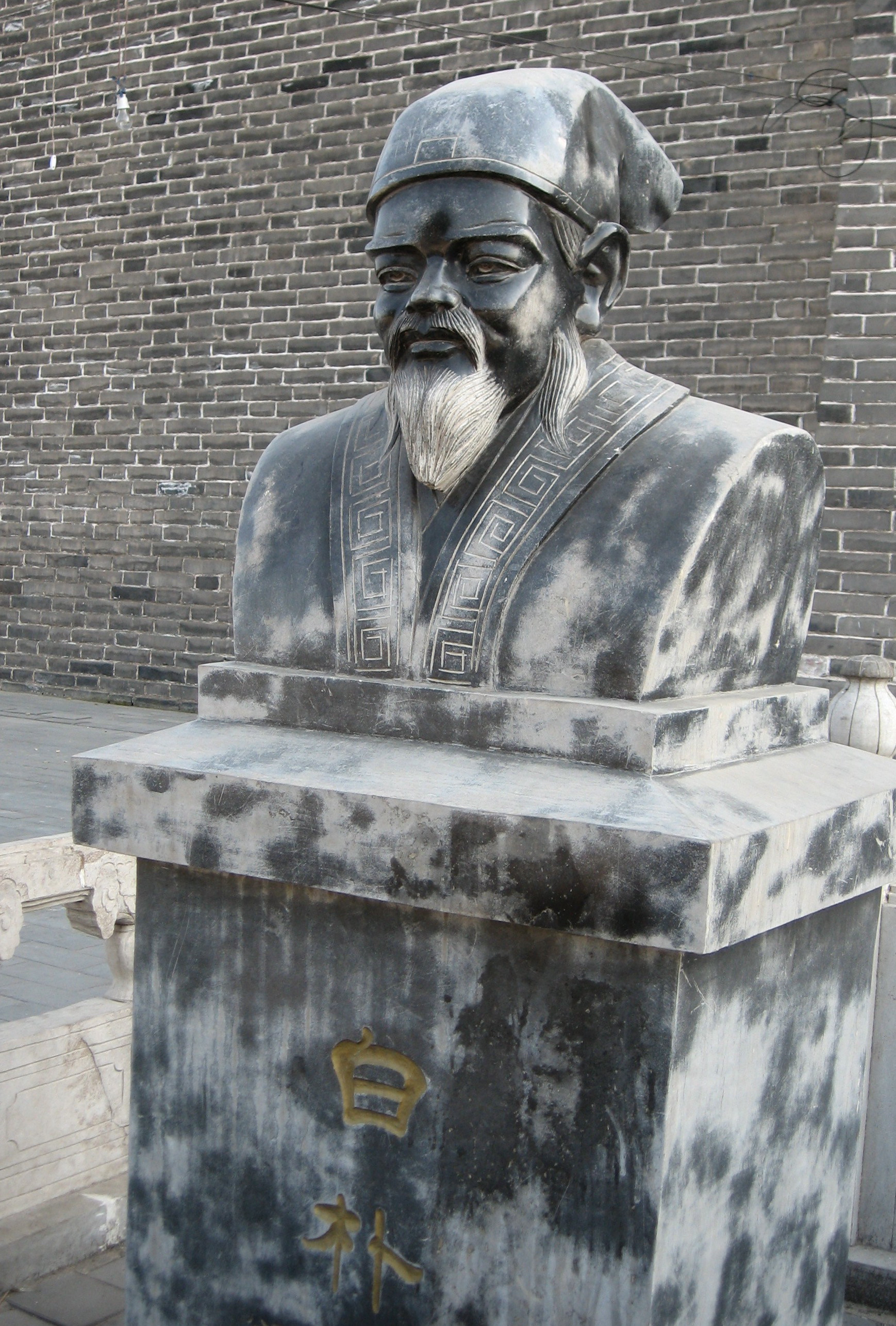 A statue of Bai Pu.中国河北省正定县南城门（长乐门）内的白朴雕像。